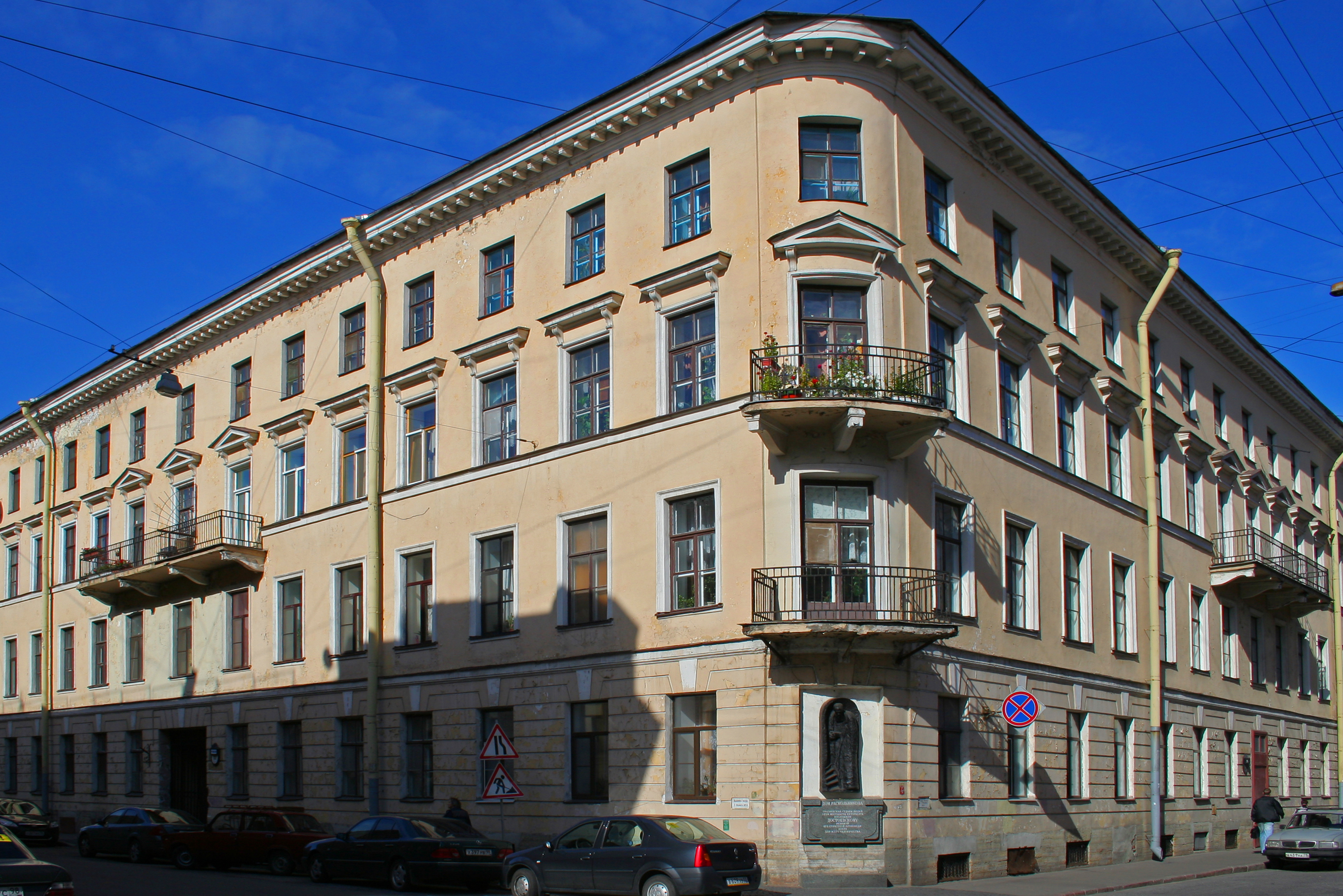 The so-called Raskolnikov House in Saint Petersburg.